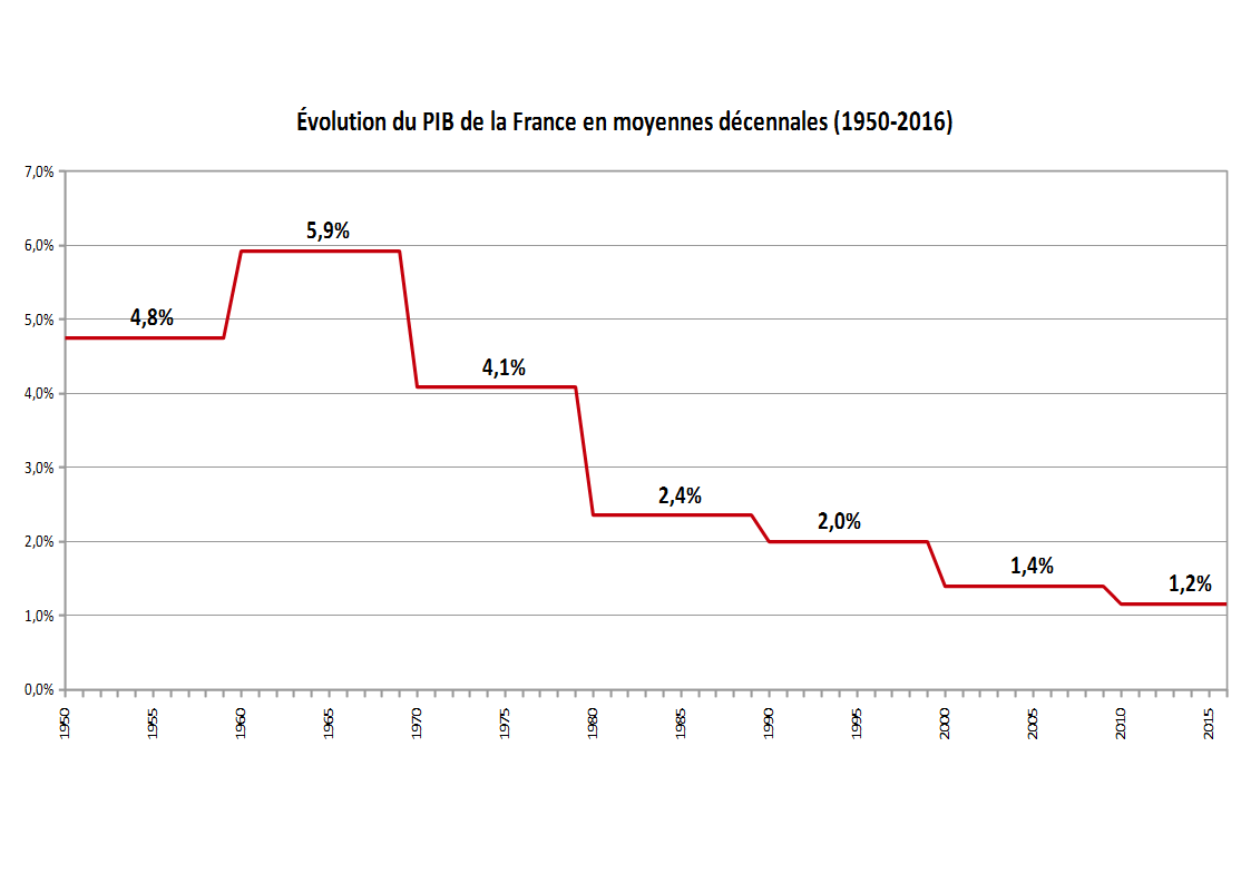 Ten-year average GNP Growth France from 1950 to 2010